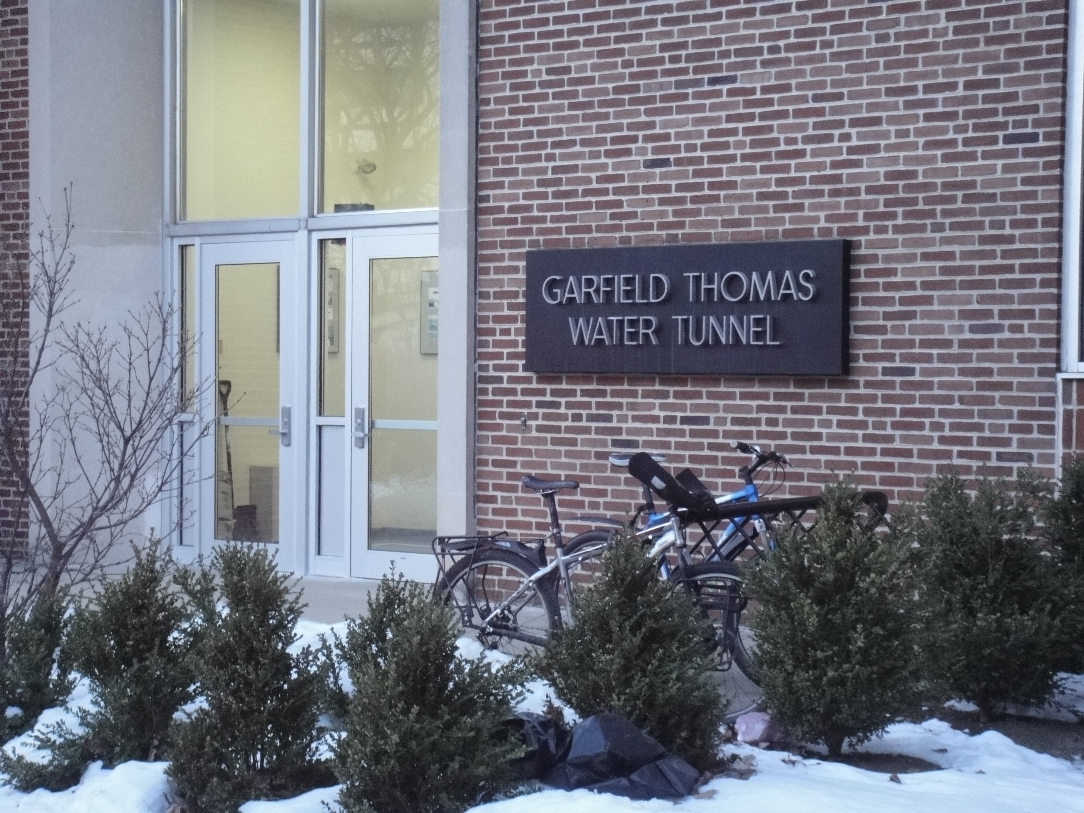 Entrance to the Garfield Thomas Water Tunnel.